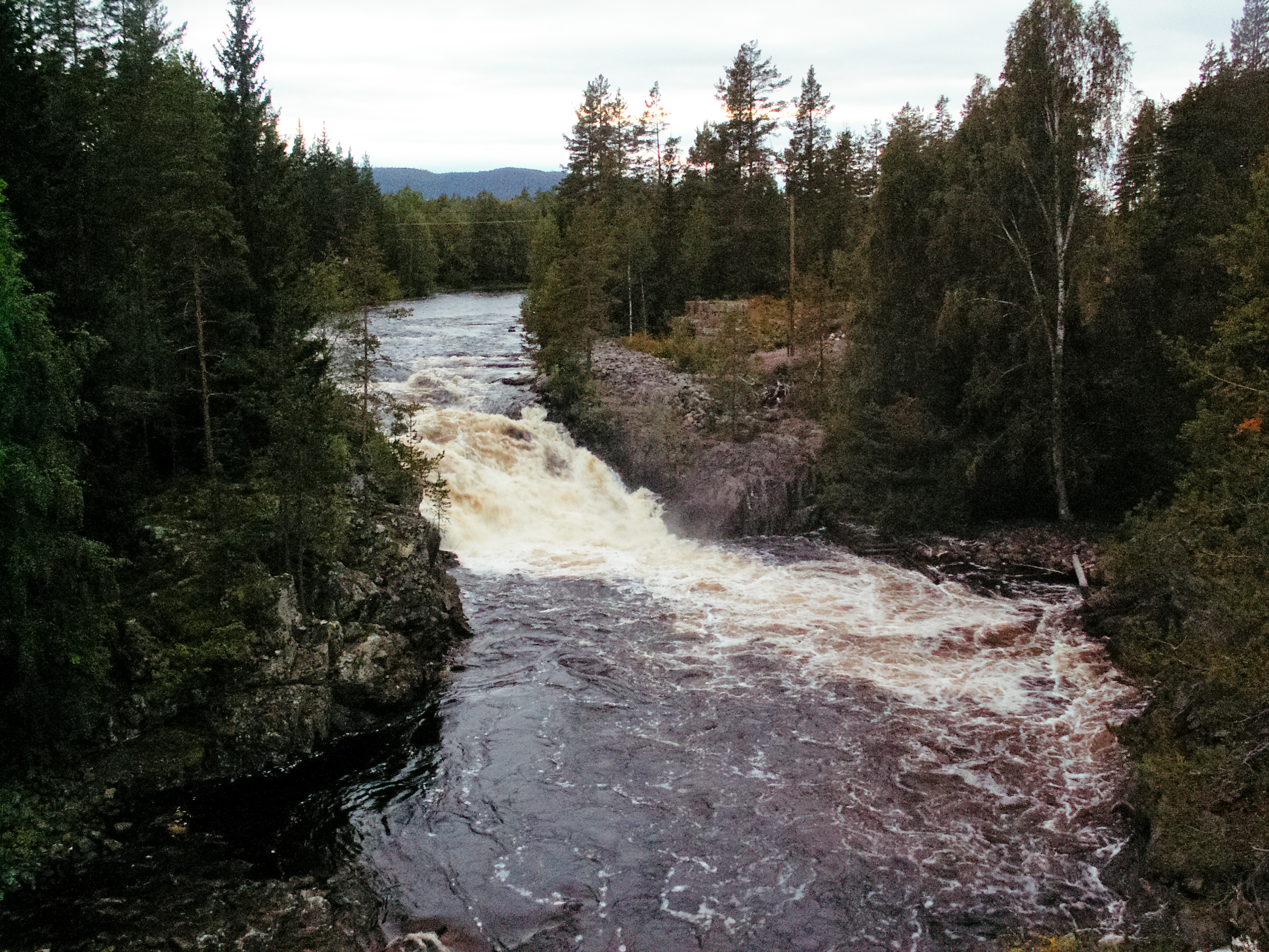 Stream in Emådalen in Dalarna, Sweden.